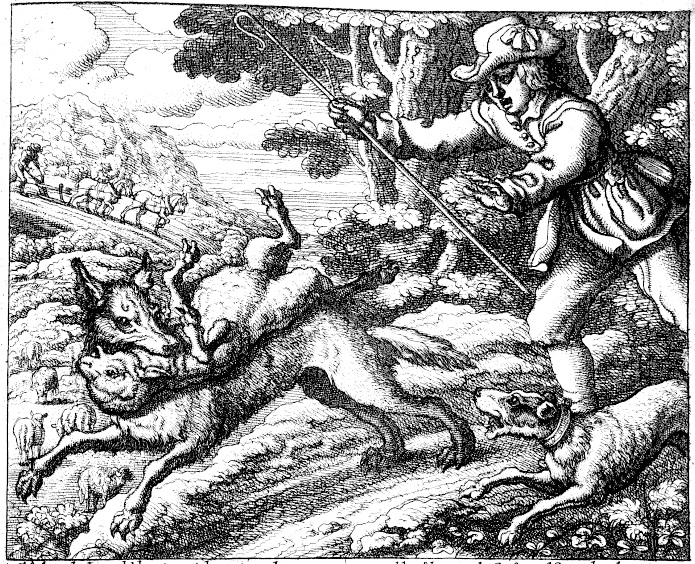 The illustration by Francis Barlow of the fable "The Boy who Cried Wolf", called by him DE PASTORIS PUERO ET AGRICOLIS, 1687